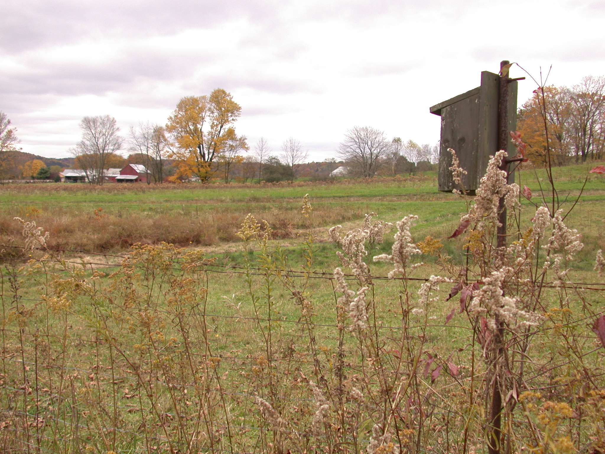 Farm scene at Rockbridge State Nature Preserve, Ohio.